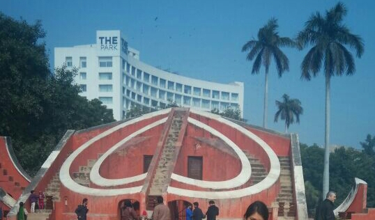 Jantar Mantar